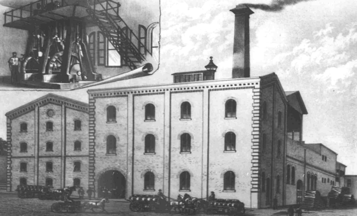 Henry Weinhard's Brewery in Portland, Oregon